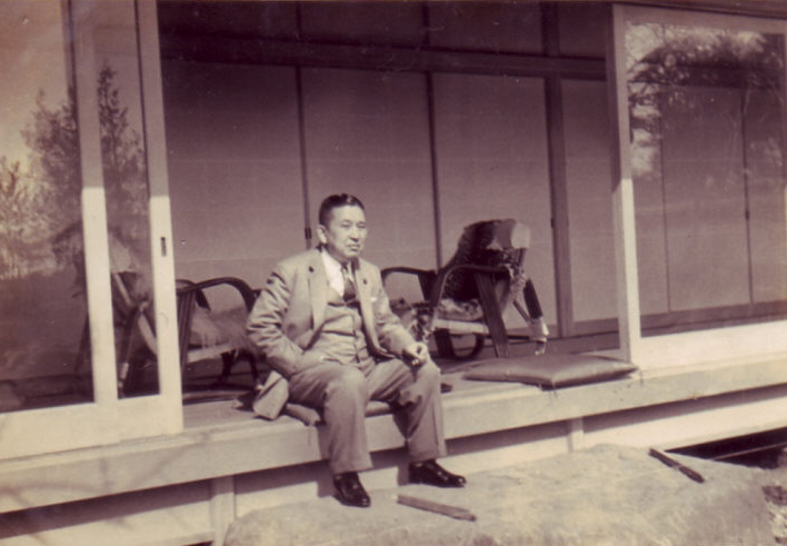 Ichirō Kōno (1898–1965)